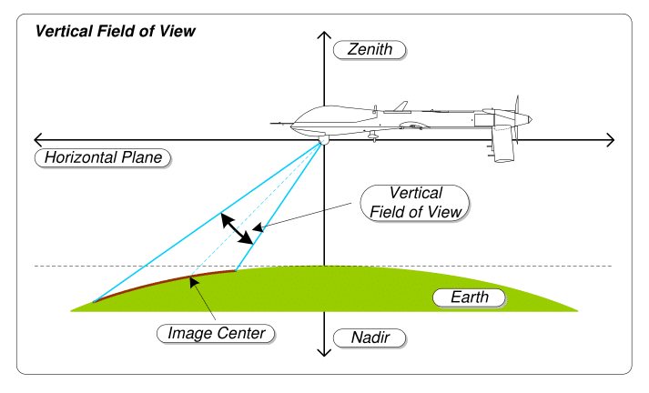 Vertical Field of View